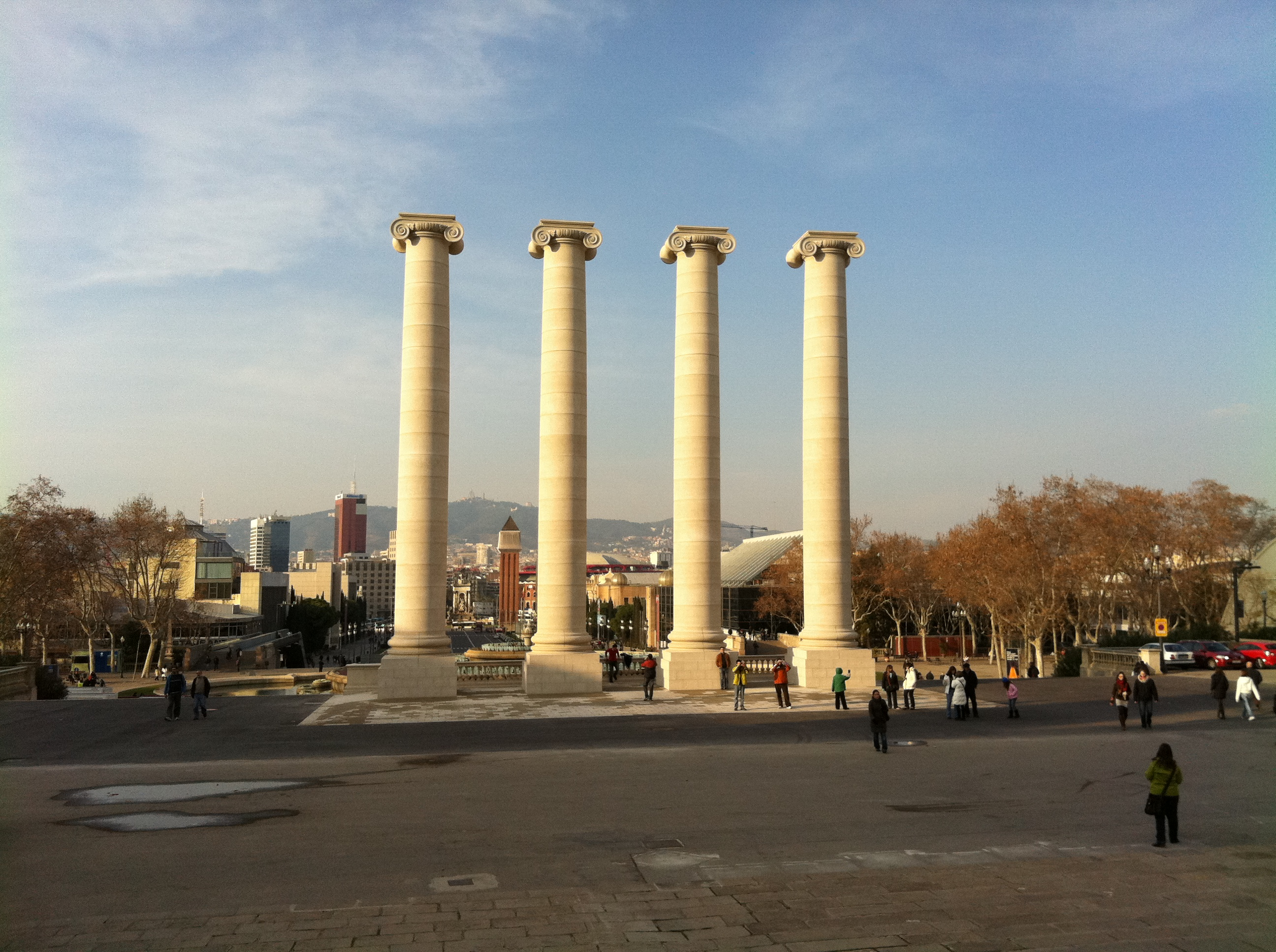 4 columns of Puig i Cadaflach. Barcelona. Re-built in 2010